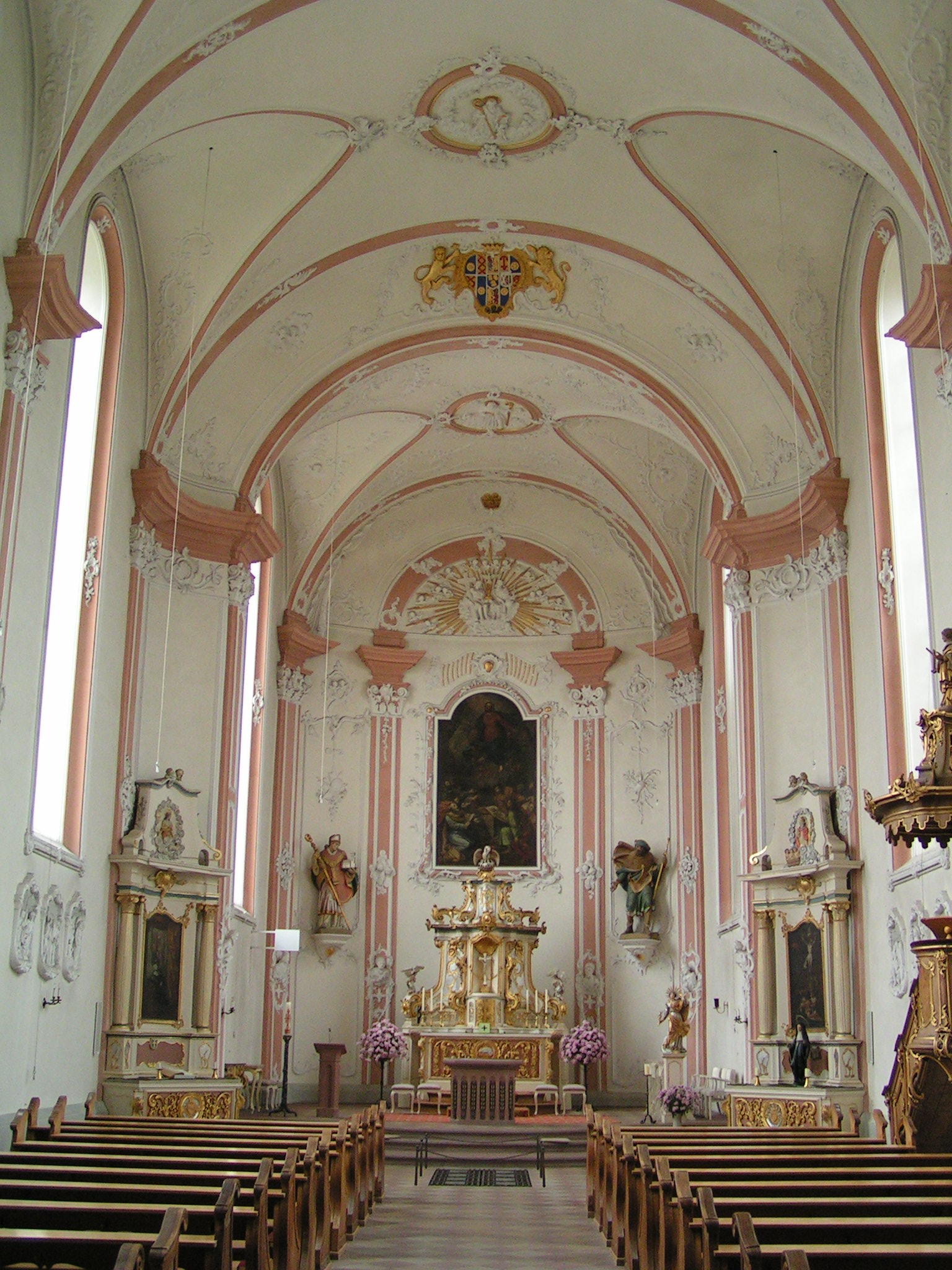 St. Irminen, Rhineland-Palatinate, Germany